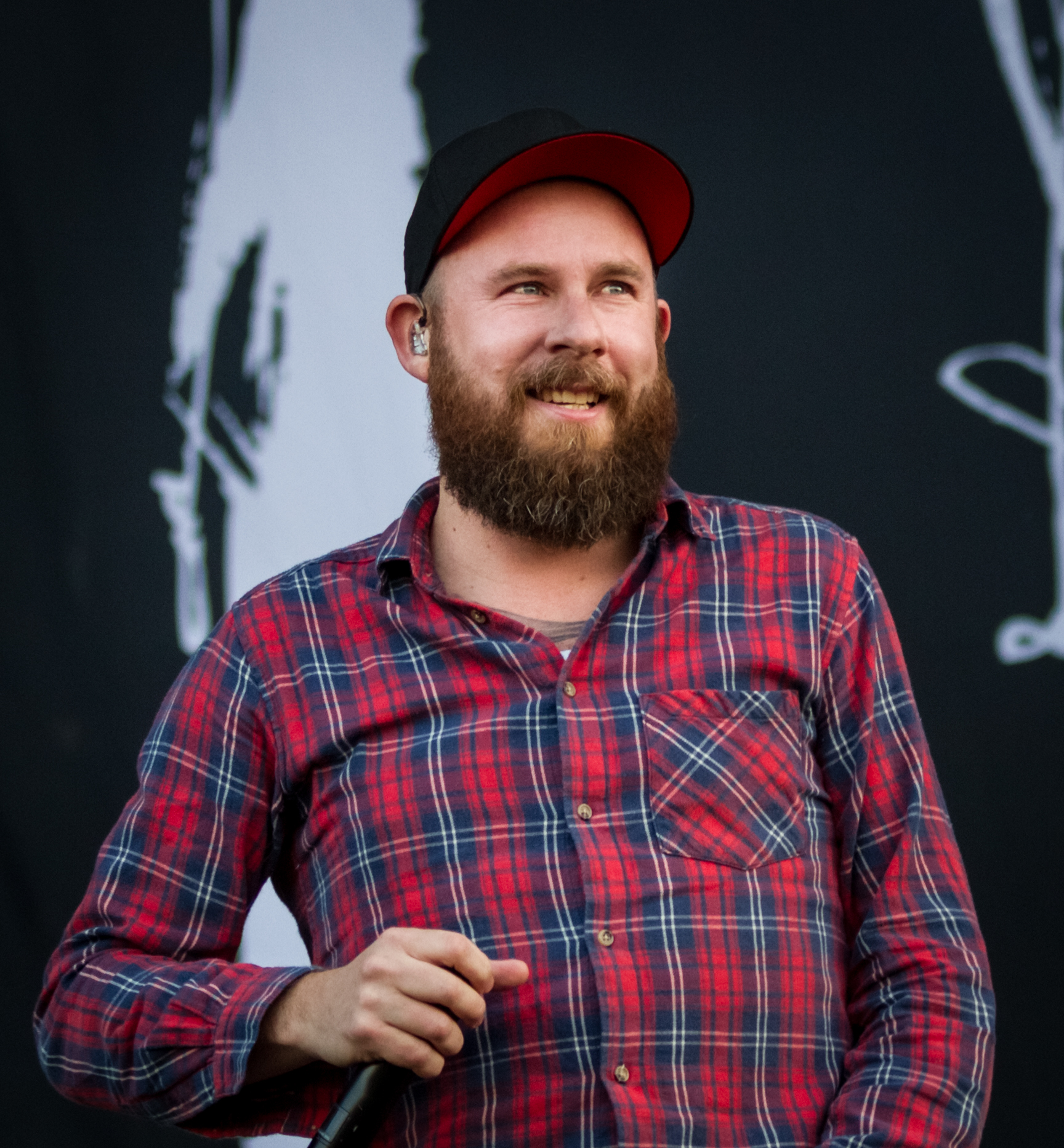 In Flames - Rock am Ring 2015